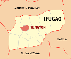 Map of Ifugao showing the location of Hingyon